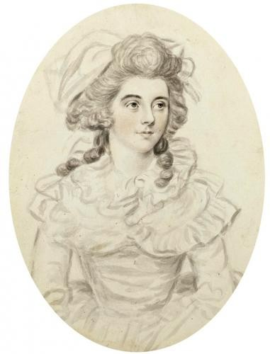 Contributed by Mr. Timothy Langston, Timothy Langston Fine Art & Antiques (accessed 5-20-2016) "This hitherto unrecorded portrait of Georgiana relates to several works at Chatsworth by John Downman, which are studies for the double portrait of her and Lady Elizabeth Foster which now hangs at Ickworth house. Another virtually identical study to the portrait presented here is in the Fitzwilliam Museum, Cambridge (no. 2314.15). Typical of Downman's technique and style of the 1780s this sketch has a spontaneity and freshness of approach that highlights both the beauty and realism of the sitter without resorting to unnecessary flattery." "Downman completed this rare sketch whilst at the height of his popularity in London. Within a few years of his return to the capital in 1779 he had attained a reputation as one of the most fashionable portraitists of the day and by 1786 he was reported in the press as "universally admired & sought after by the first people of rank and taste" (Morning Post, May 4th 1786). One of the keys to his success was his recognition of representing his sitters in the fashions of the day, leading to commissions not only from high society and royalty but also from the professional classes." "With thanks to Charles Noble, the Curator at Chatsworth House, who confirmed the attribution and identity of the sitter." Timothy Langston